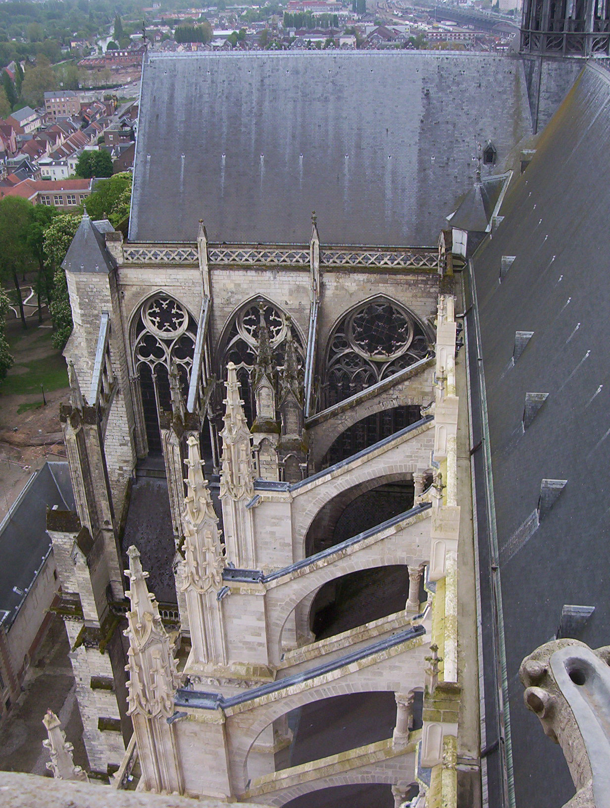 Amiens Cathedral - Flying buttresses of the nave, High Gothic